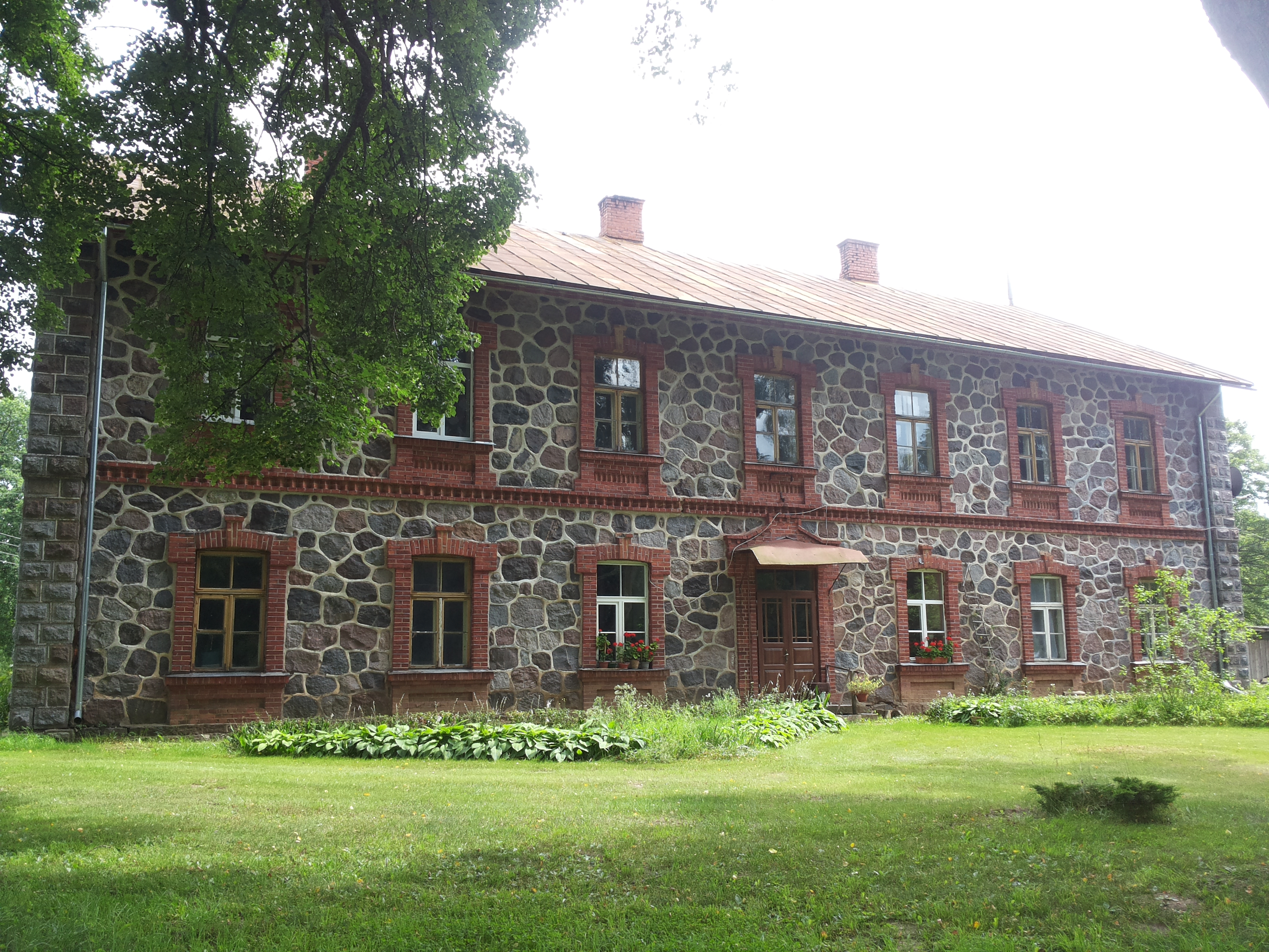 An building in Latvia, Plāņi parish, Kazruņģis